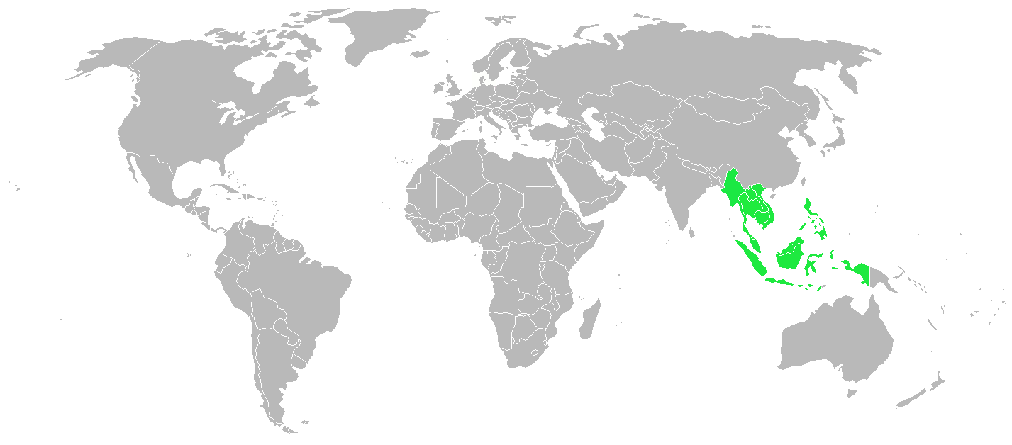 World map, ASEAN states marked green